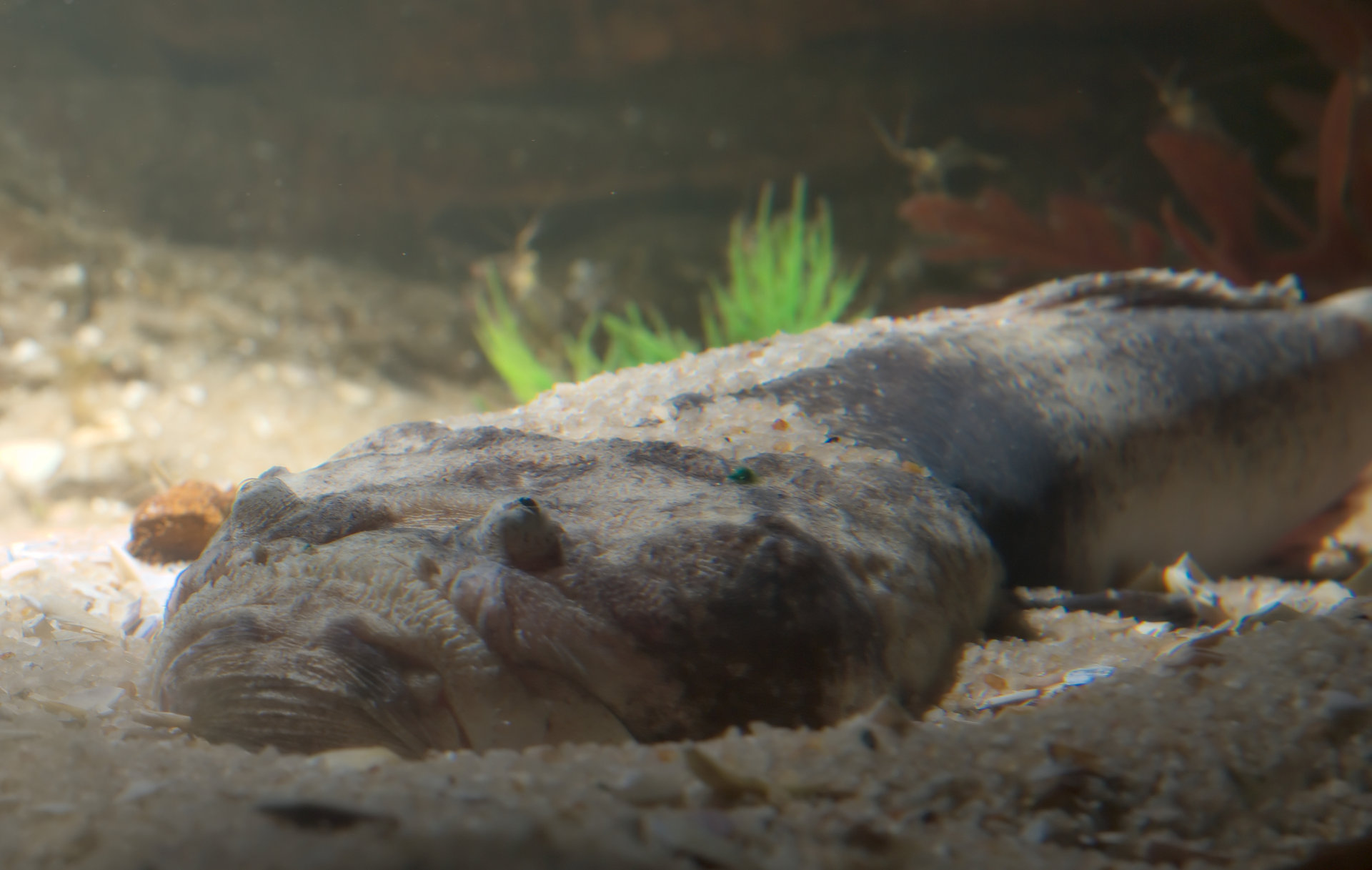 Eastern Stargazer, Kathetostoma laeve at Melbourne Aquarium.